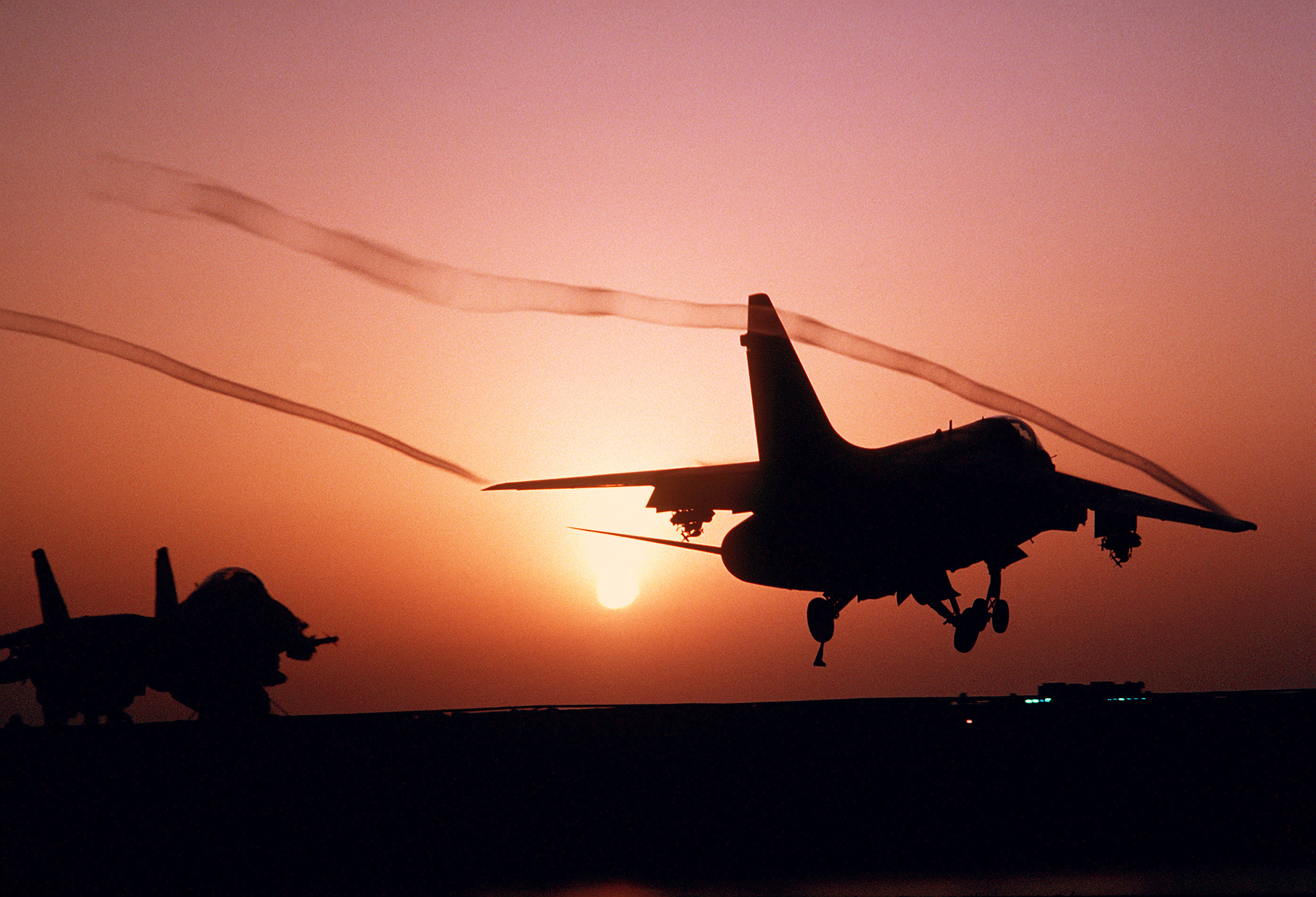 An A-7E Corsair II aircraft lands on the flight deck of the nuclear-powered aircraft carrier USS CARL VINSON (CVN-70) at sunset.